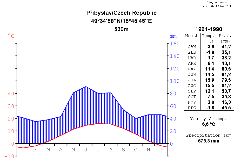 climate chart of Přibyslav, Czech Republic, for the period of time from 1961 to 1990, in the format by Walter and Lieth, metric, °Celsius and millimeters, chart made with Geoklima 2.1, label in English